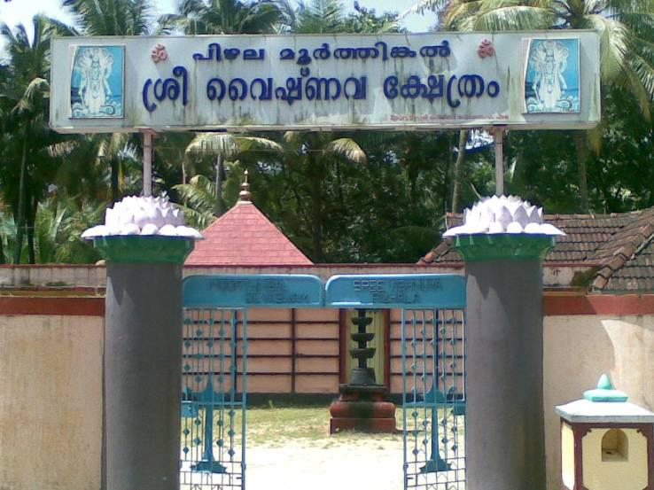 Pizhala Moorthinkal Shree Vaishnava Kshethram. It is Hindhu kudumbi Community Temple